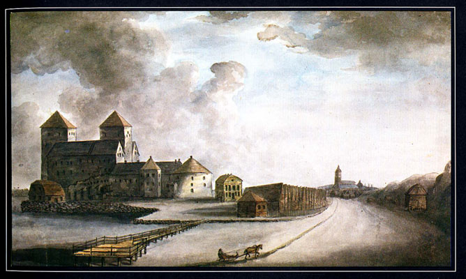 Giuseppe Acerbi and A. F. Skjöldebrand visited Finland in 1799 and made Skjöldebrand made a painting of Turku castle.